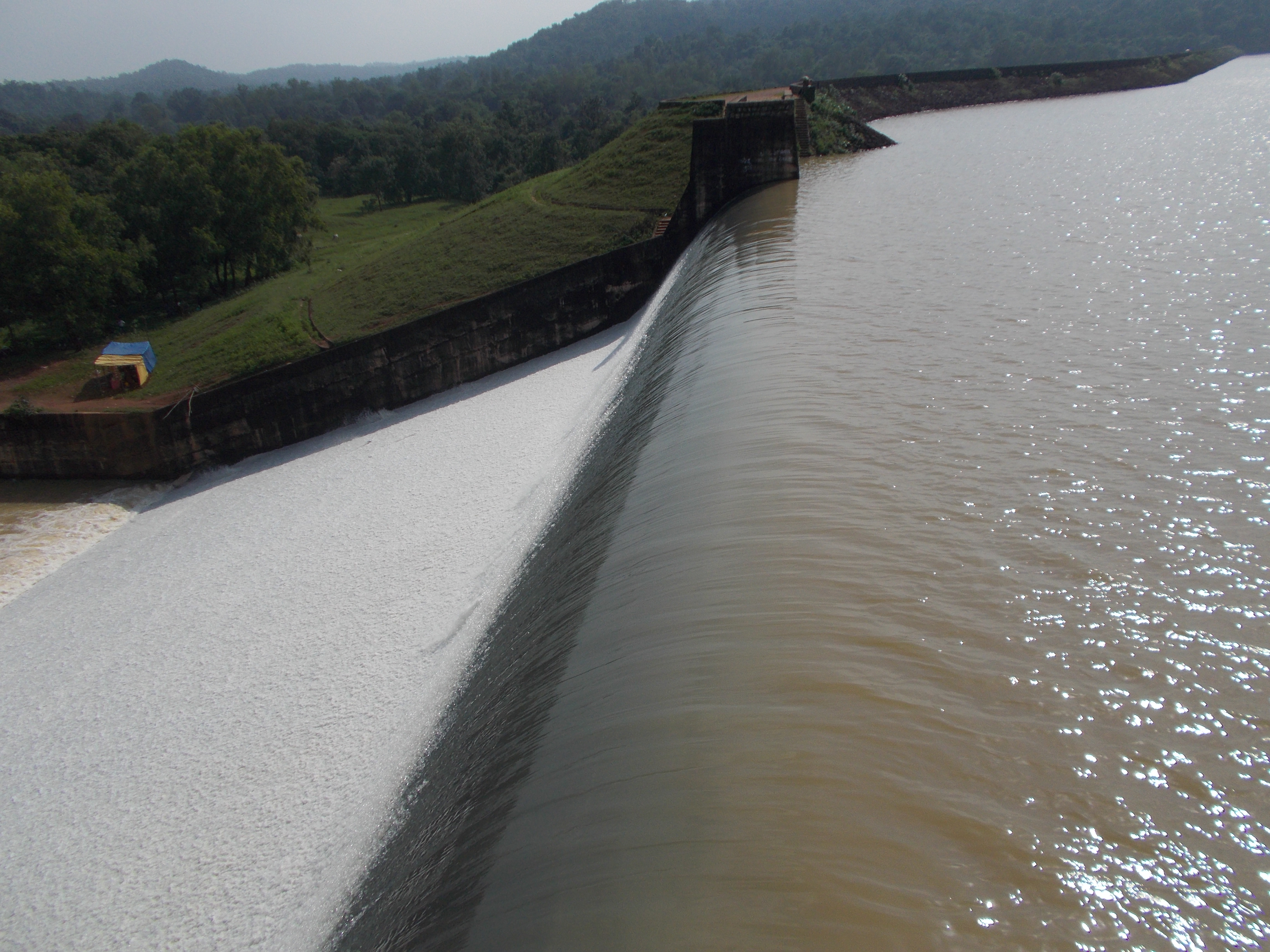 kherkatta Dam